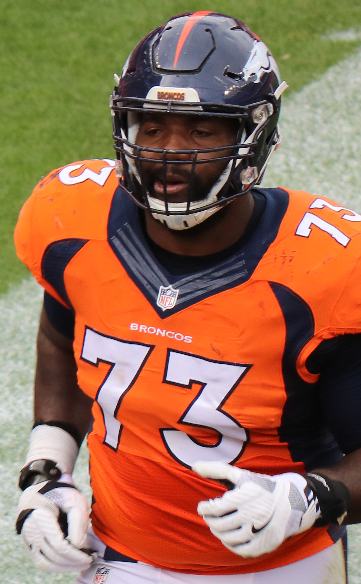 Russell Okung, a player on the National Football League.